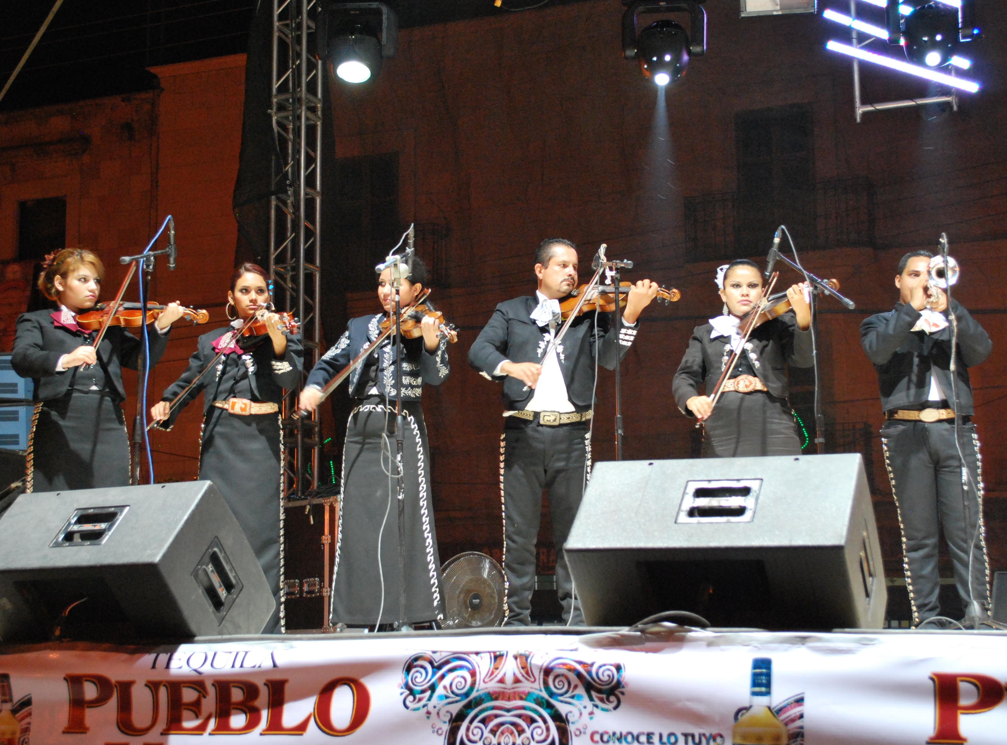 Mariachi at the Festival del Mariachi, Charrería y Tequila in San Juan de los Lagos, Mexico